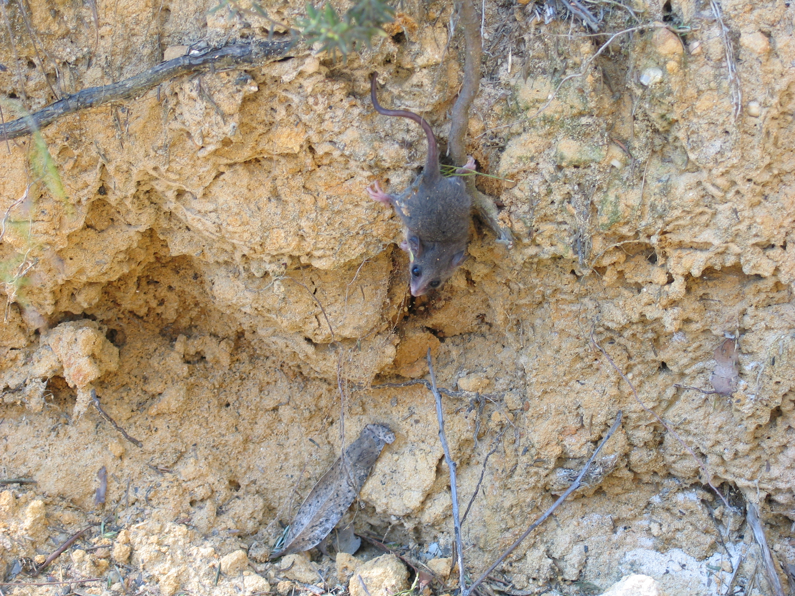 Eastern Pygmy Possum (Cercartetus nanus) along Beehive Track, Brisbane Water National Park. Photo by Martin Woulfe